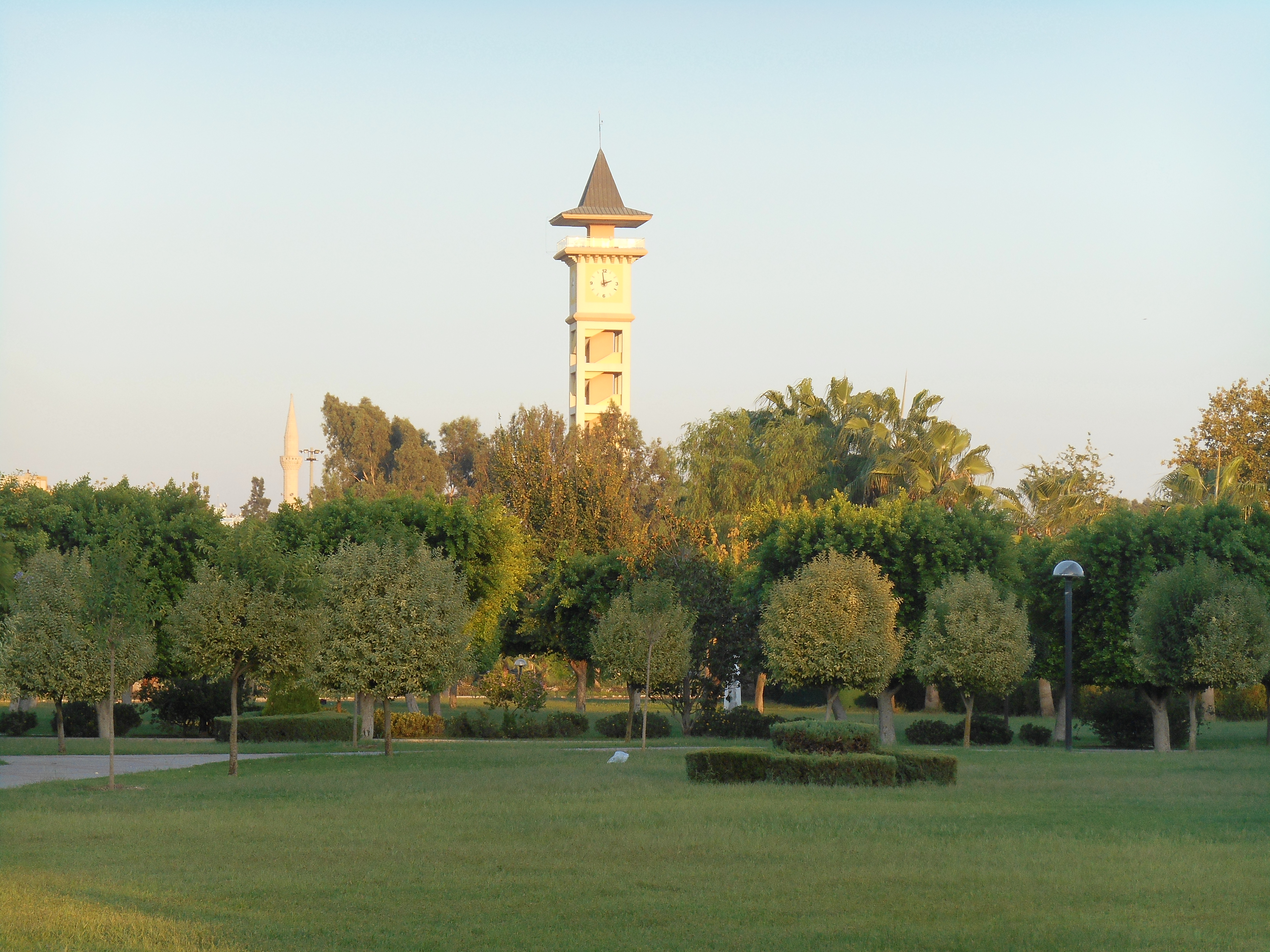 View of the Merkez Park Clock Tower